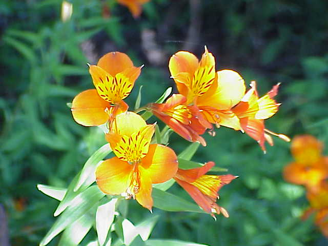 Species: Alstromeria aurantiaca Family: Amaryllidaceae Image No. 1